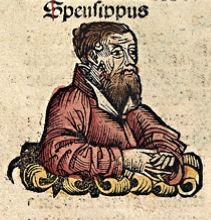 Ancient Greek philosopher Speusippus, depicted in the Nuremberg Chronicle